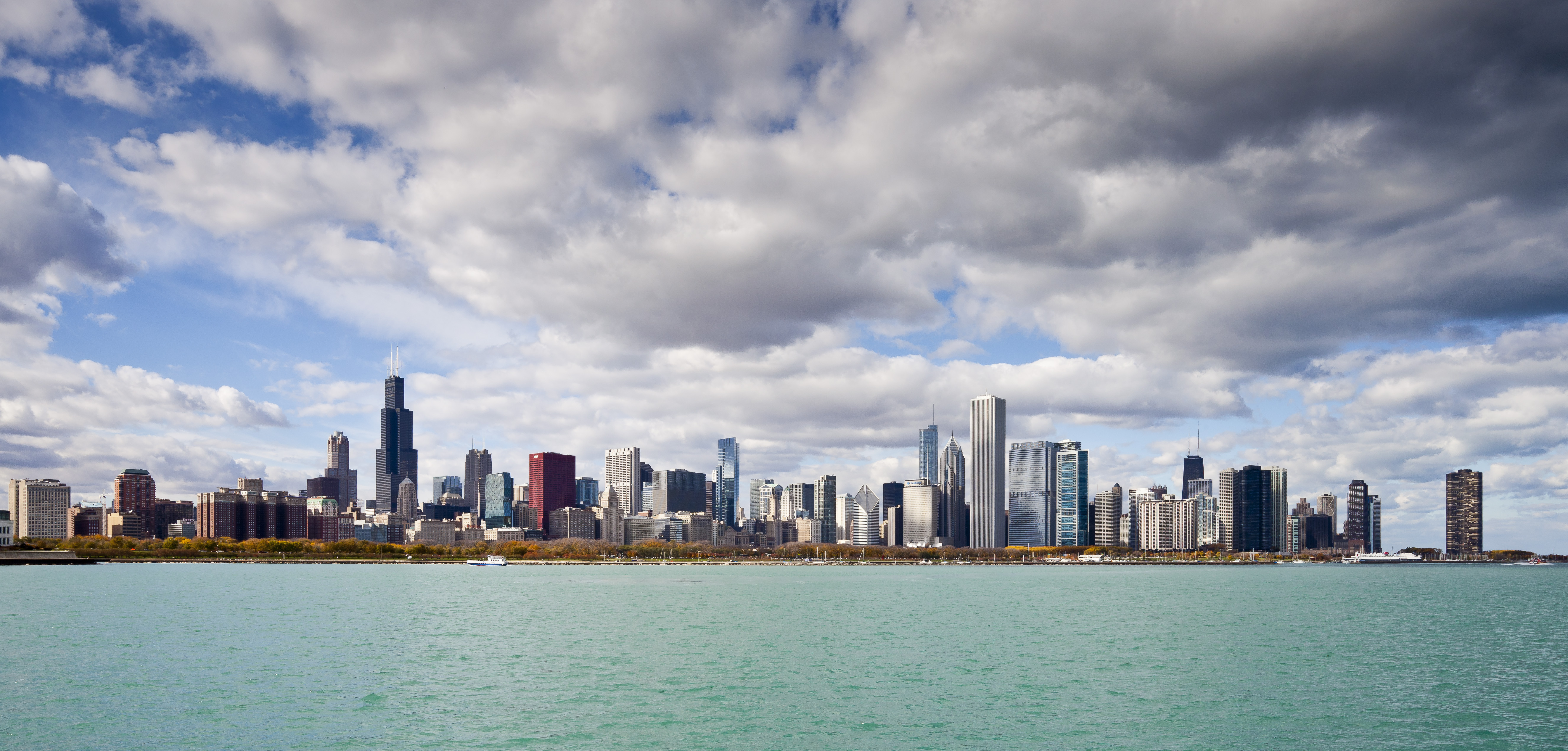 Chicago skyline, Illinois, USA